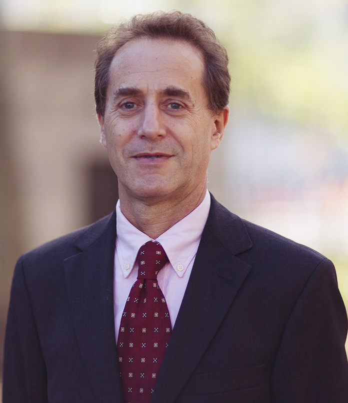 Photo of Andrew Caplin